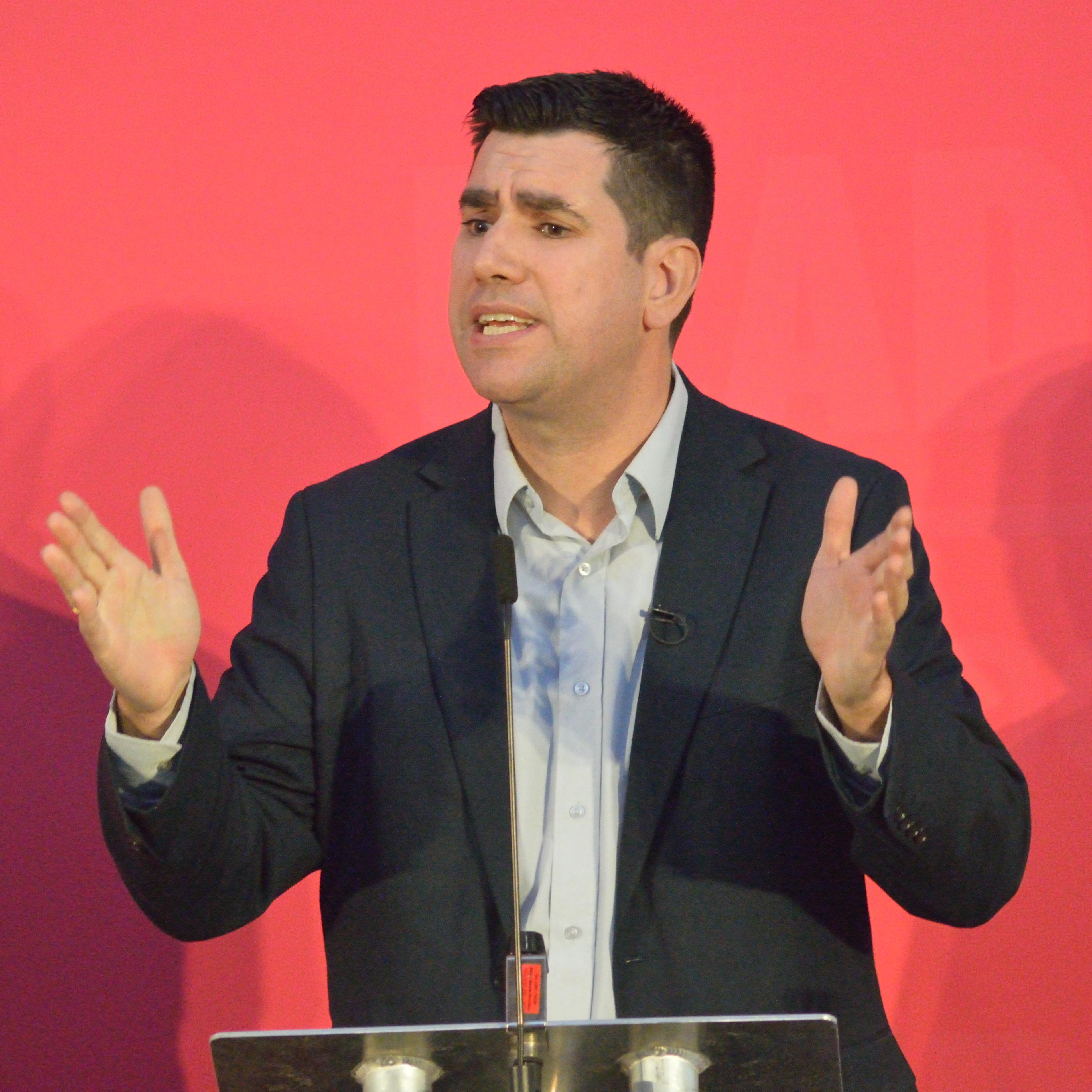 Richard Burgon speaking at the 2020 Labour Party deputy leadership election hustings in Bristol on the afternoon of Saturday 1 February 2020, in the Ashton Gate Stadium Lansdown Stand.